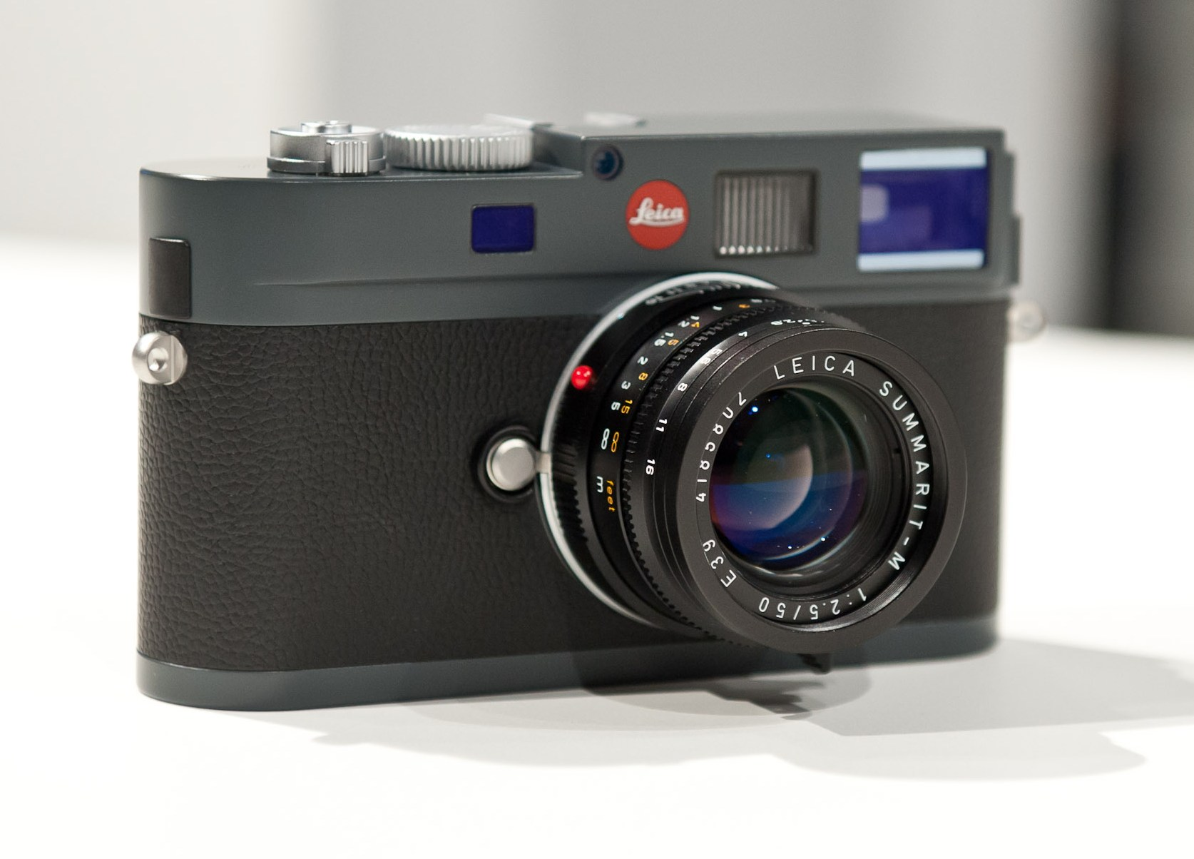 Leica M-E.